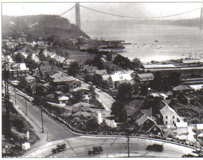 Edgewater, NJ looking north from Route 5 hill